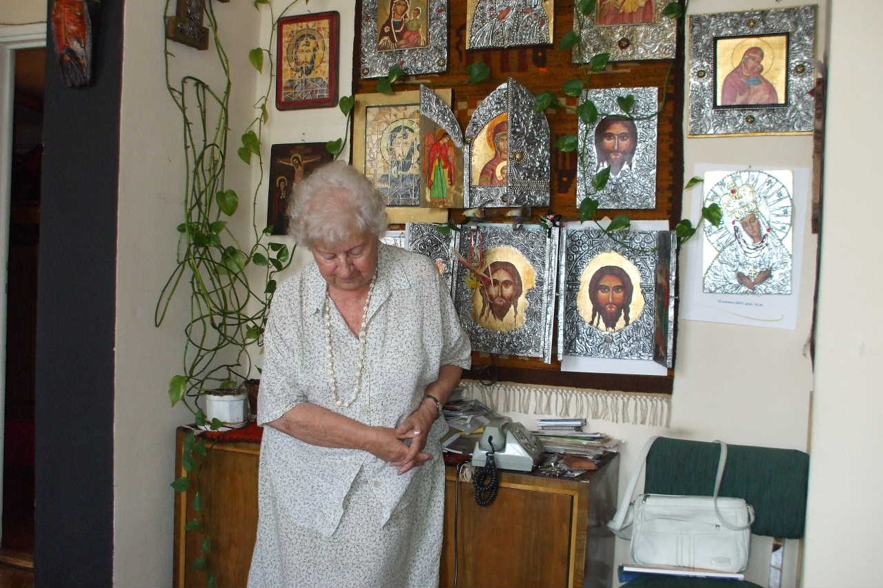 Polish painter Zofia Garbaczewska-Pawlikowska in her atelier.